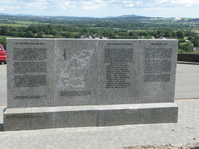 1798 Monument This monument is situated on Vinegar hill, to commemorate the 1798 rebellion.